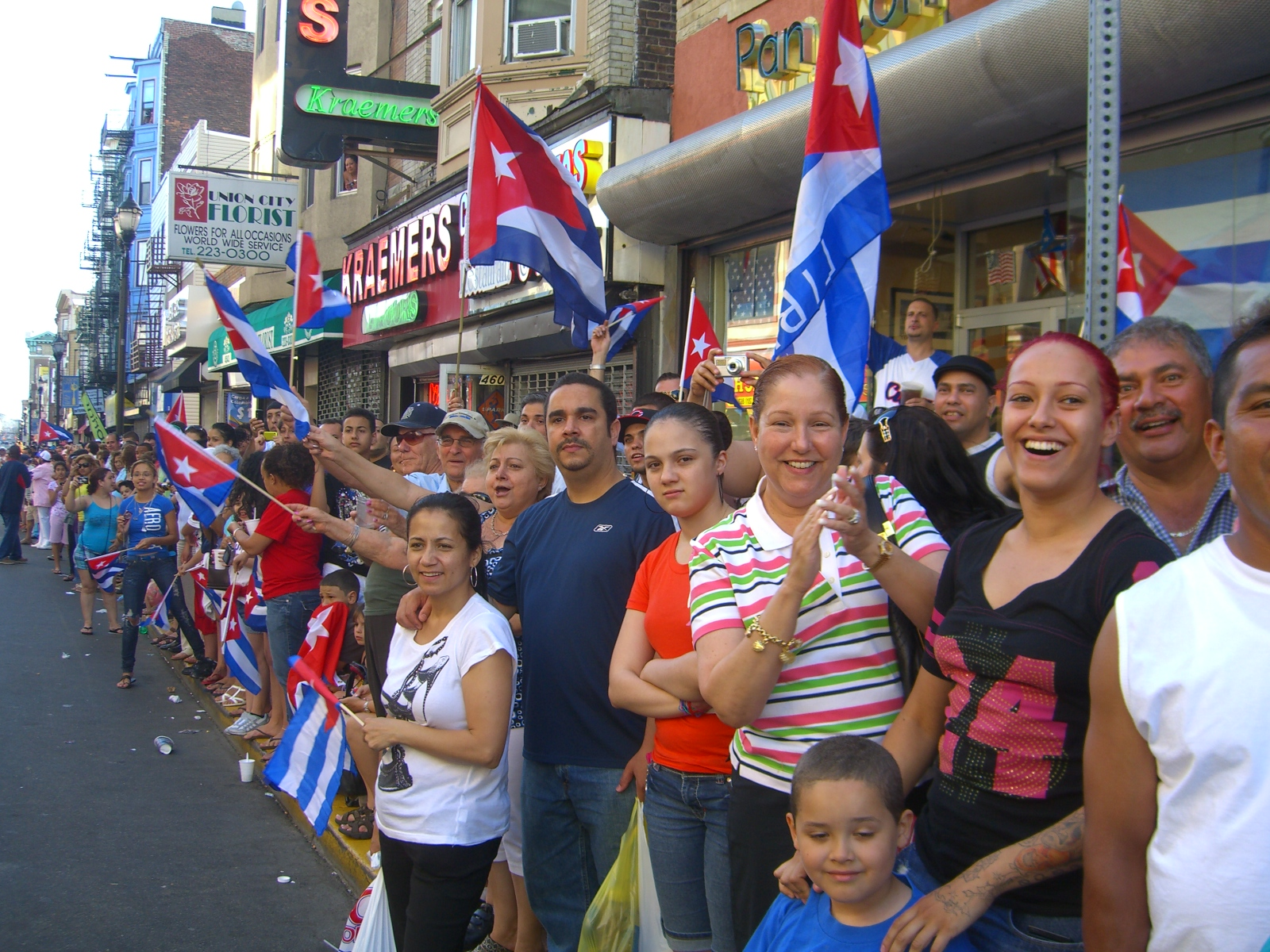 Revelers during the 11th annual North Hudson Cuban Day Parade on Bergenline Avenue in Union City, New Jersey, June 6, 2010. This photo was created by Luigi Novi. It is not in the public domain, and use of this file outside of the licensing terms is a copyright violation.